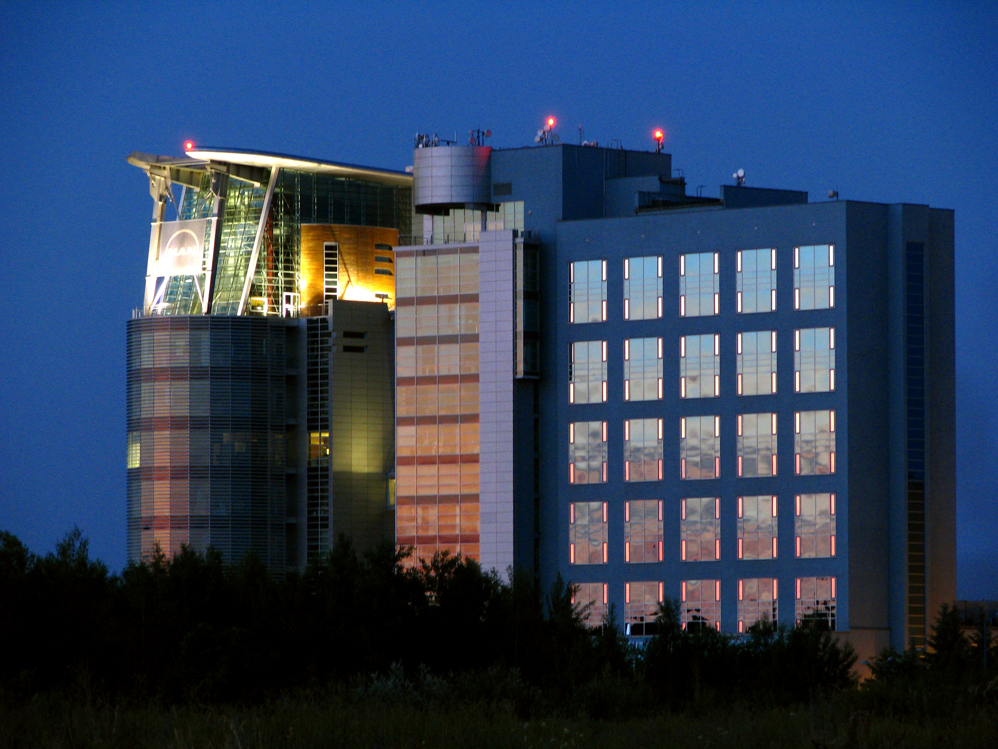 Office building in Poznan at Marcelińska street.